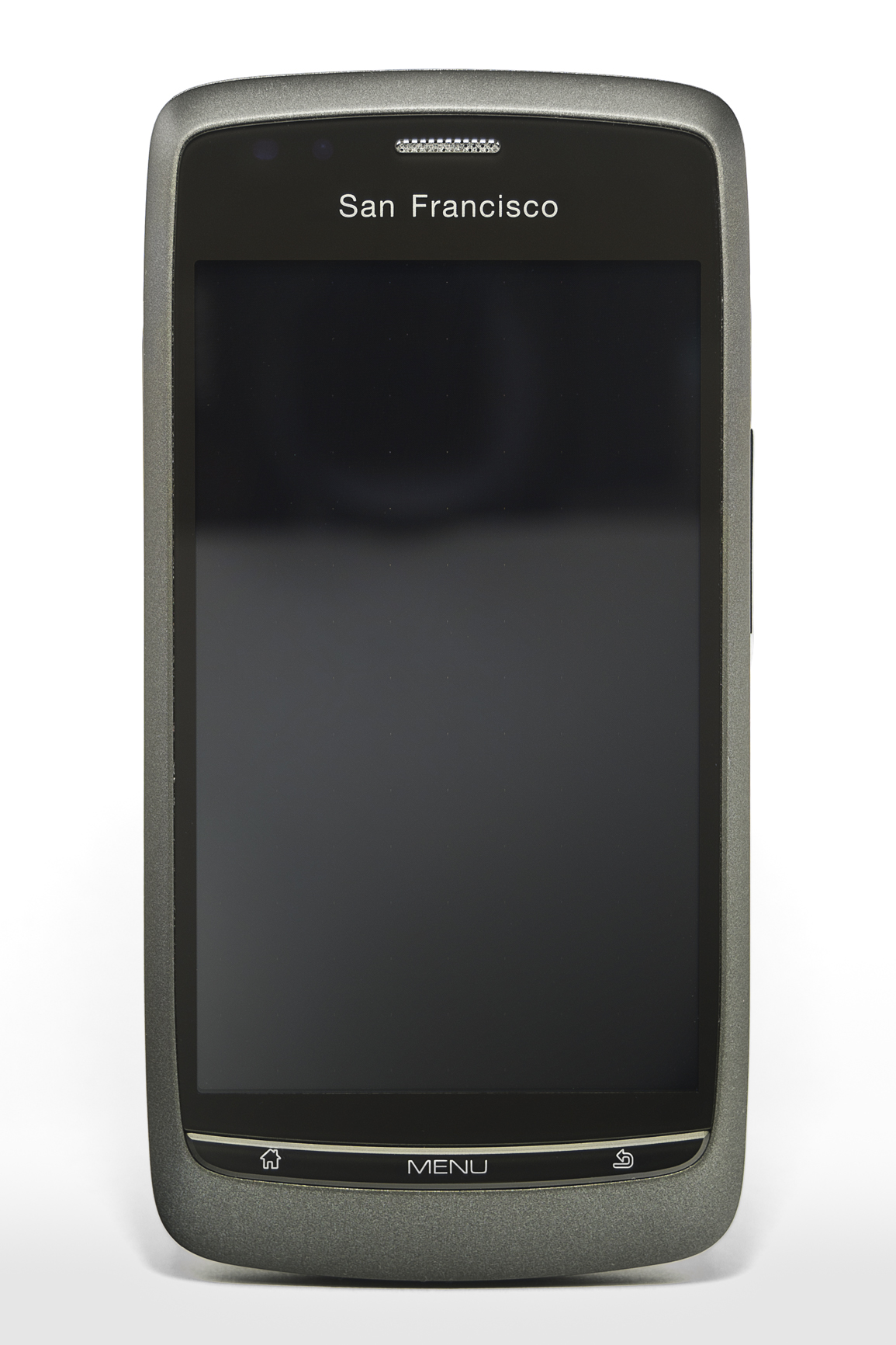 An Orange San Francisco (ZTE Blade).